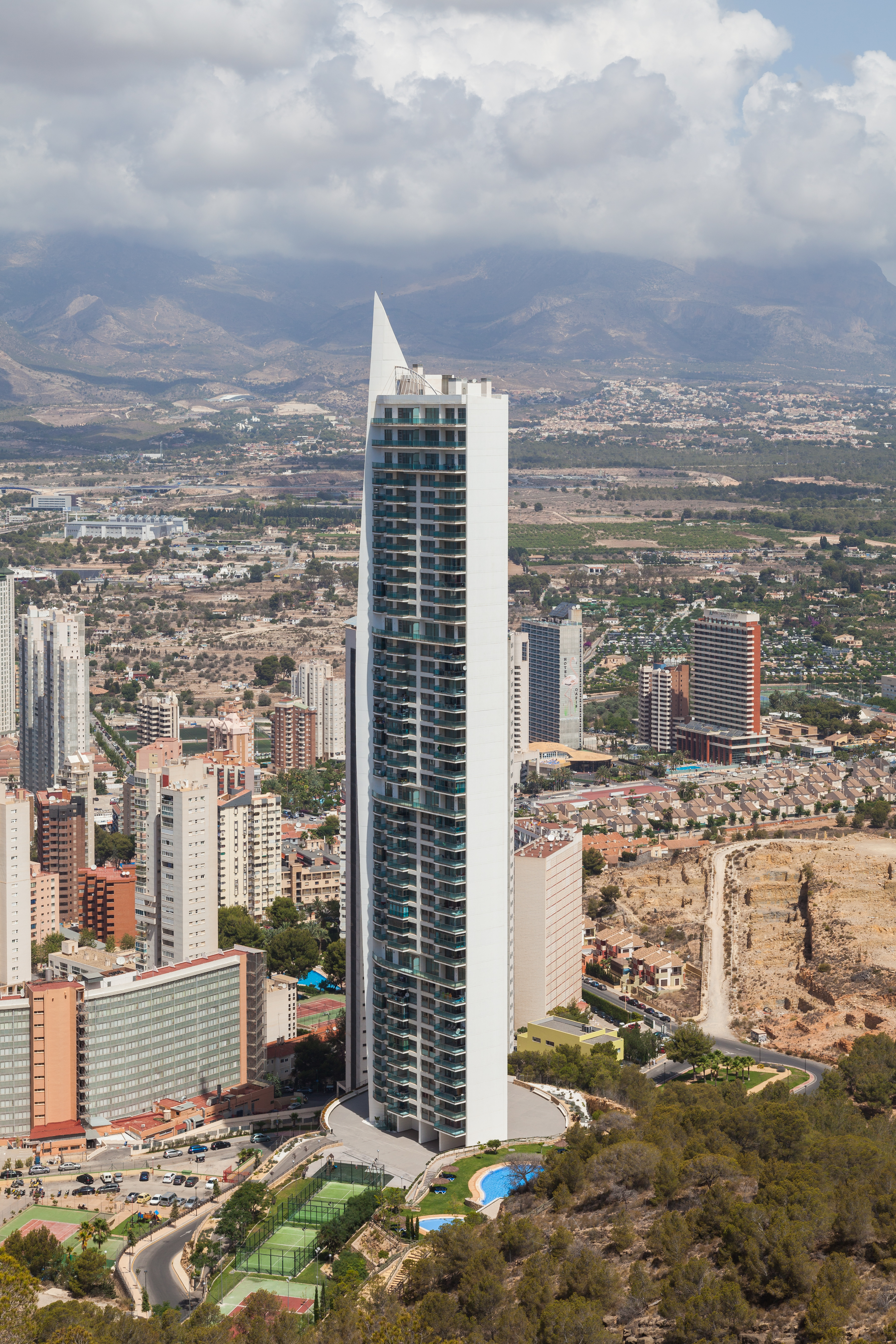 Lúgano Tower, Benidorm, Spain